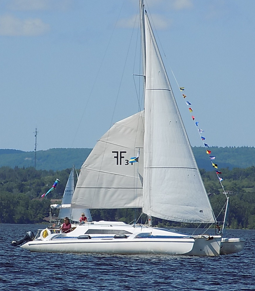 A Corsair F31 trimaran sailboat named Osprey.